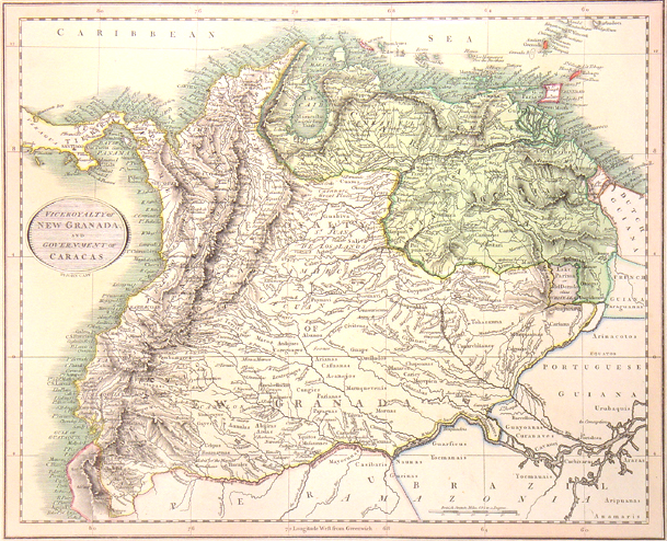 Map of the Viceroyalty of New Granada, and Government of Caracas